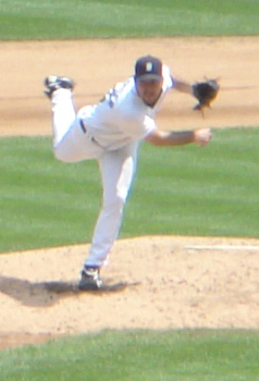 Justin Verlander pitching to Ichiro Suzuki of the Seattle Mariners on May 10, 2007. I took this picture myself. 20:55, 26 June 2007 . . TheKuLeR . . 238×350 (70 KB)